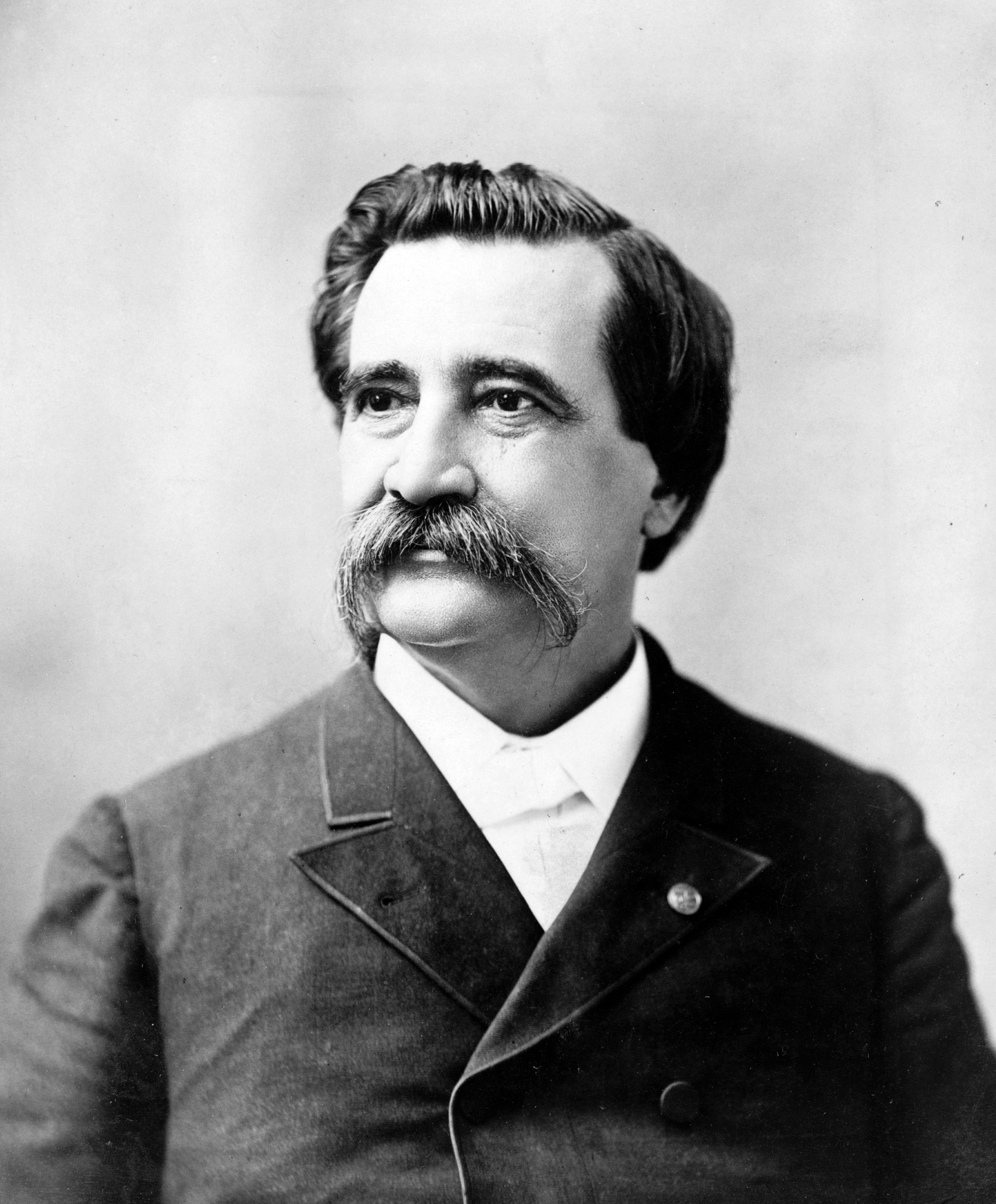 John Alexander Logan, head-and-shoulders portrait, facing left CALL NUMBER: CONG. PORT. FILE - Logan, John Alexander, 1826-1886 [item] [P&P] REPRODUCTION NUMBER: LC-USZ62-105624 (b&w film copy neg.) MEDIUM: 1 photographic print. CREATED/PUBLISHED: [1886], c1887. CREATOR: Pratt, Dewitt C., photographer. NOTES: 25972 U.S. Copyright Office. Forms part of: Congressional Portrait Collection (Library of Congress). SUBJECTS: Logan, John Alexander, 1826-1886. FORMAT: Portrait photographs 1880-1890. Photographic prints 1880-1890. DIGITAL ID: (b&w film copy neg.) cph 3c05624